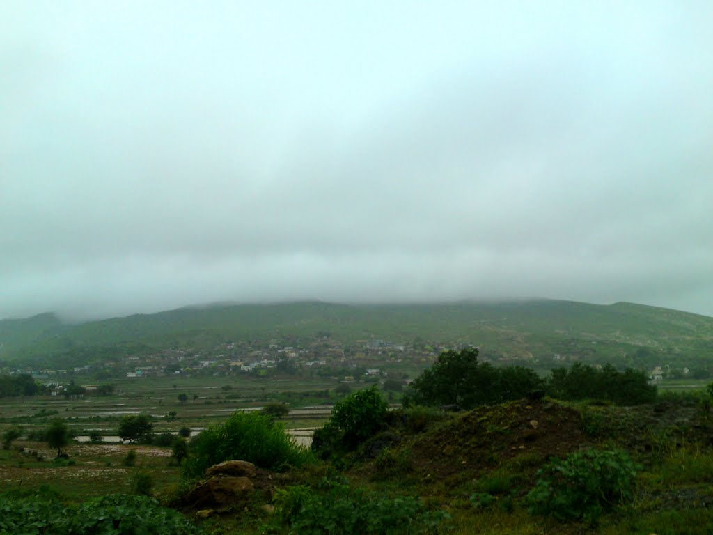 A Village in Salt Range